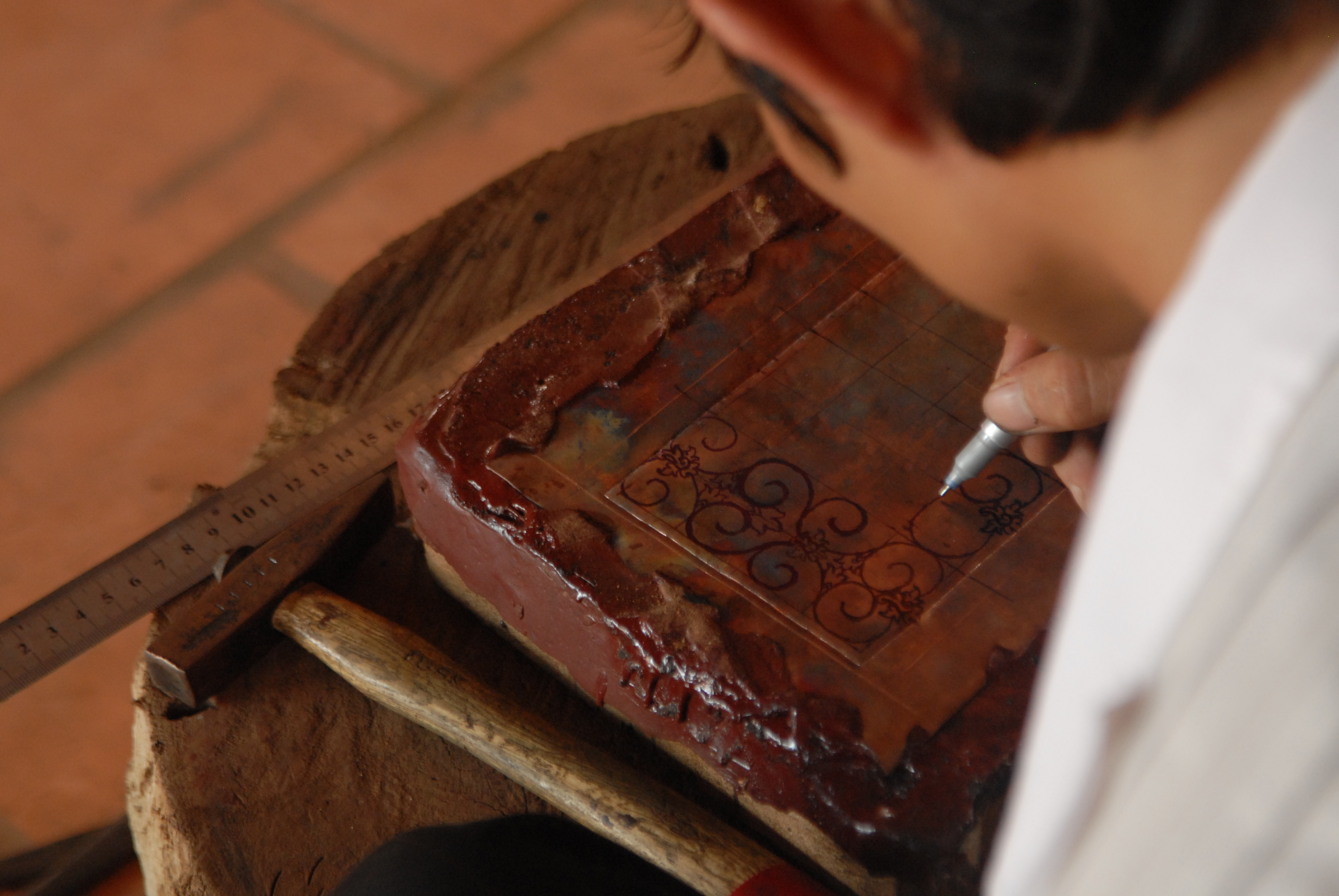 L'art de la dinanderie à Artisans d'Angkor